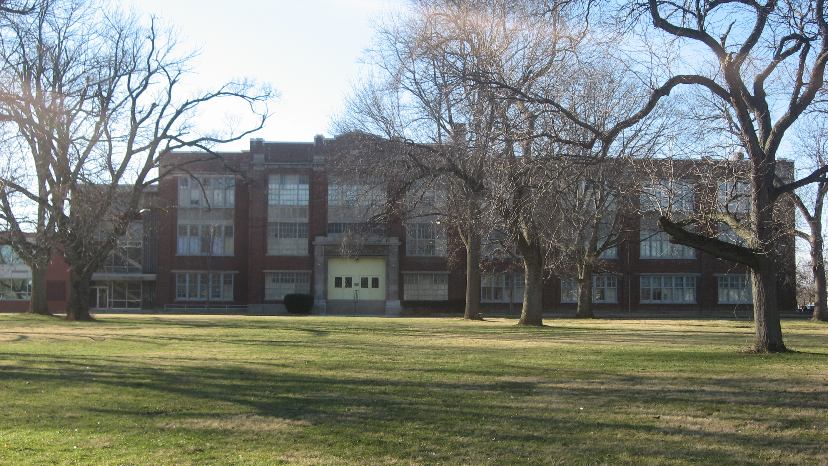 Front of Wilson Junior High School, located at 2000 S. Franklin Street in Muncie, Indiana, United States. Built in 1921, it is listed on the National Register of Historic Places.